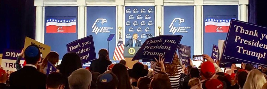 Donald Trump speaks to the Republican Jewish Coalition in Las Vegas, Nevada, 6 April 2019